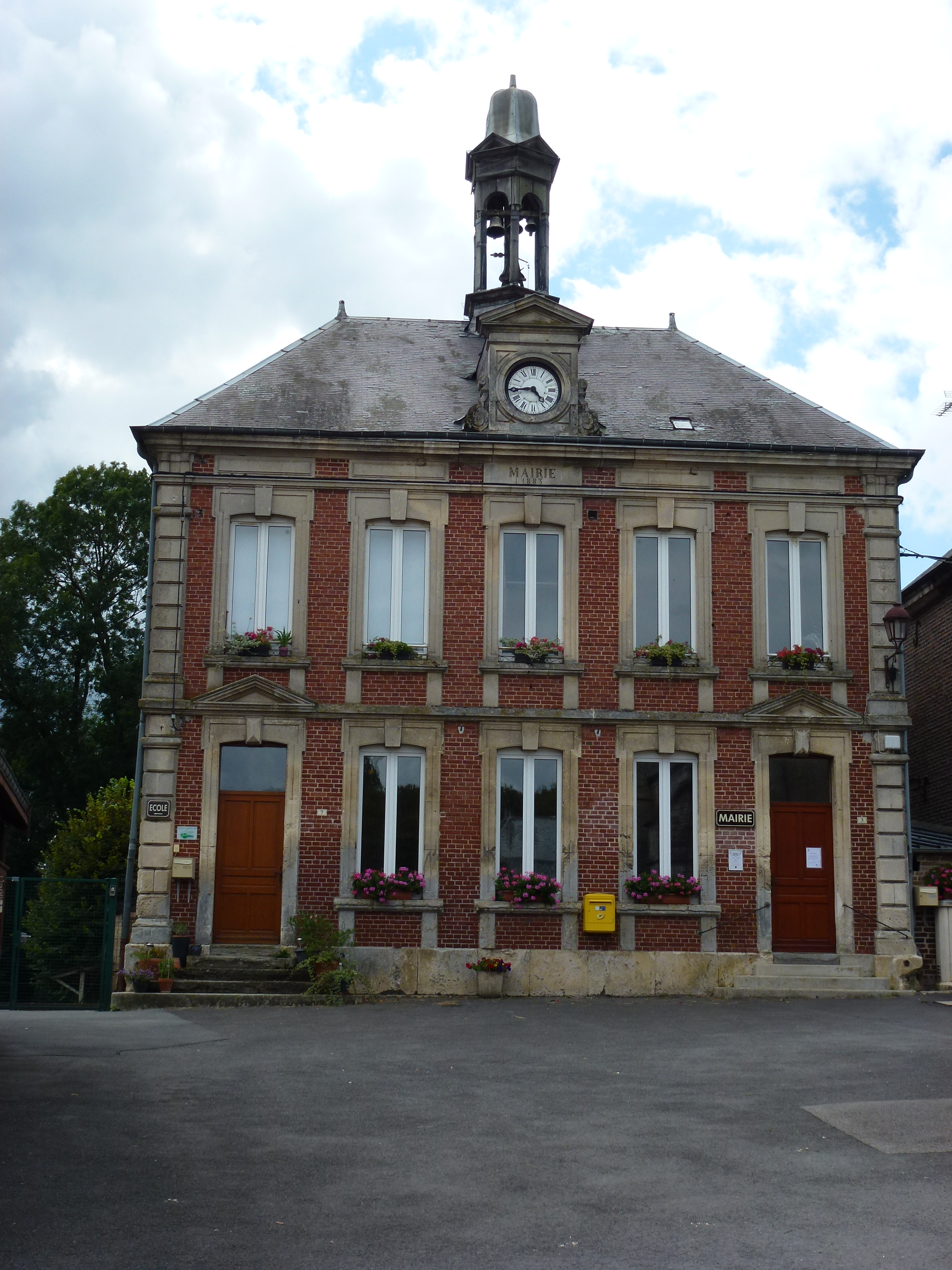 Viel-Saint-Rémy (Ardennes) mairie